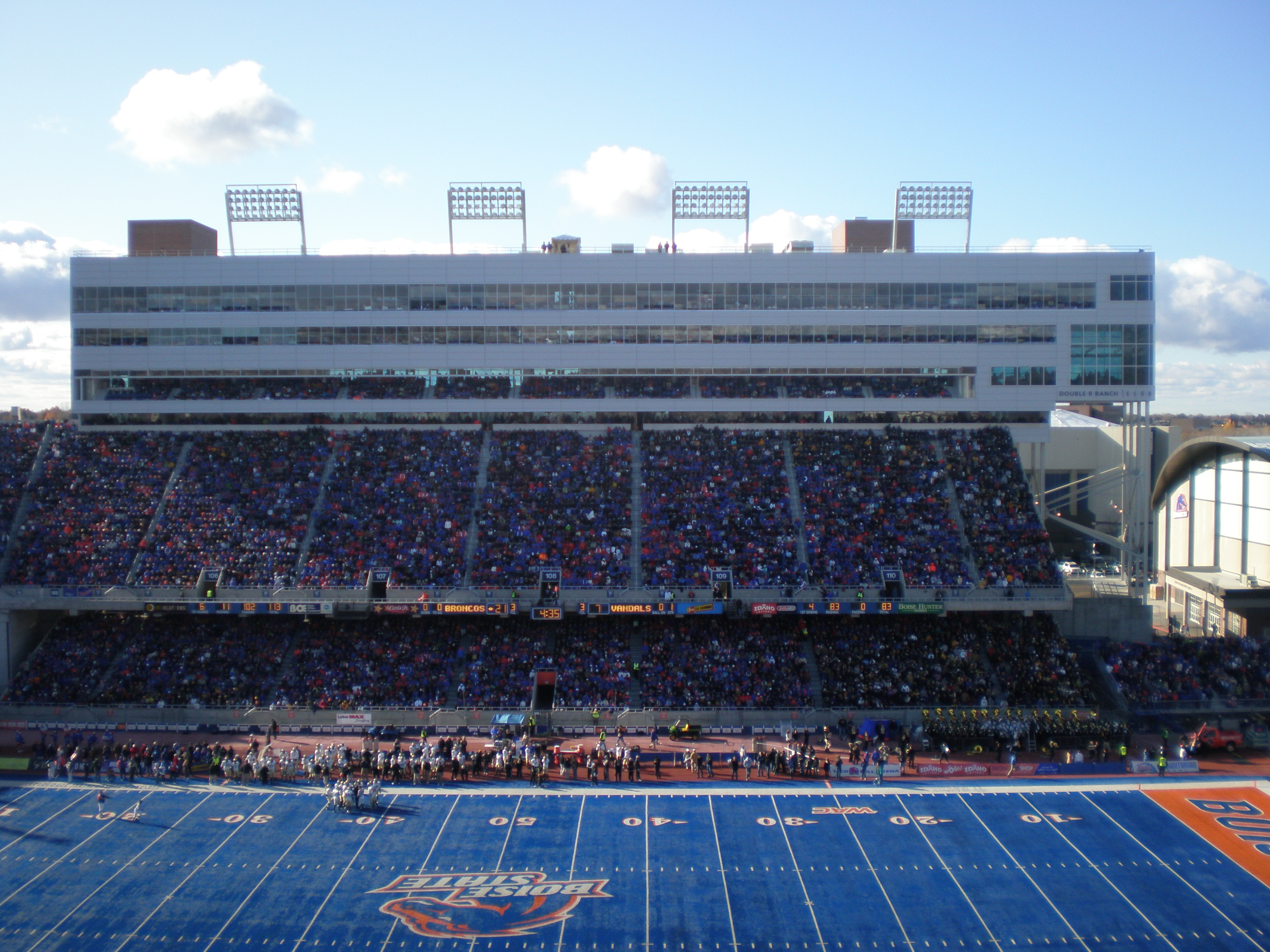 Bronco Stadium in Boise, ID during the Boise State vs Idaho game on November 14, 2009.